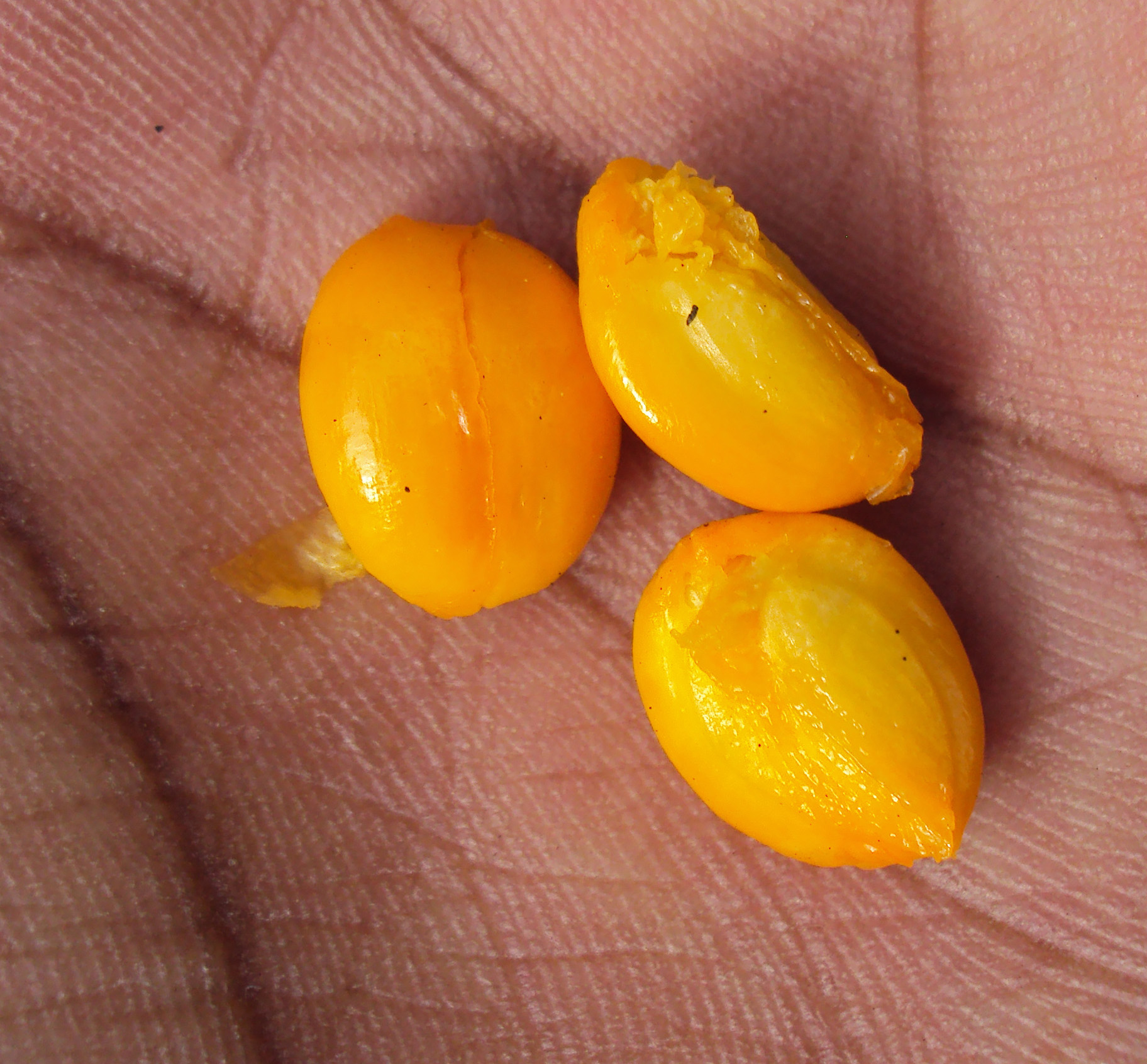 Celastrus paniculatus